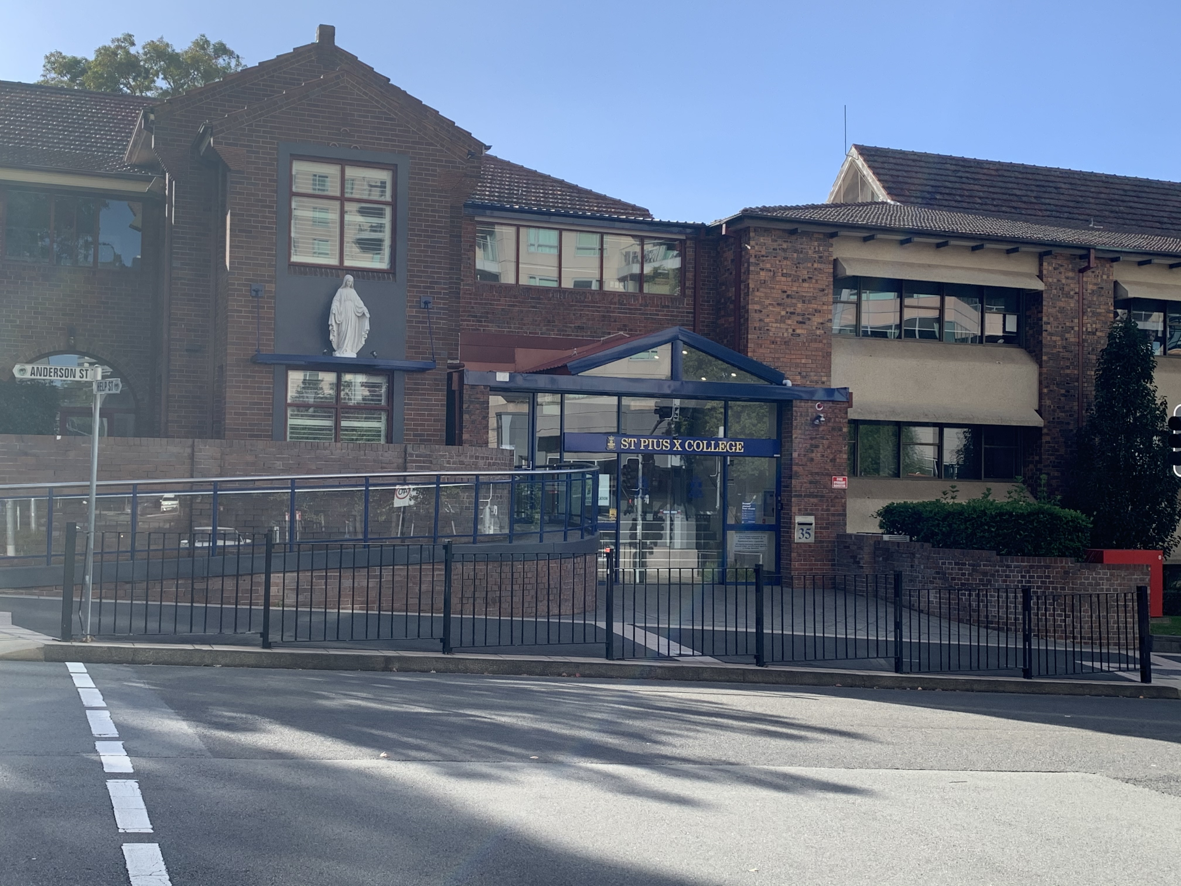 The street view, front entrance of St Pius X College.